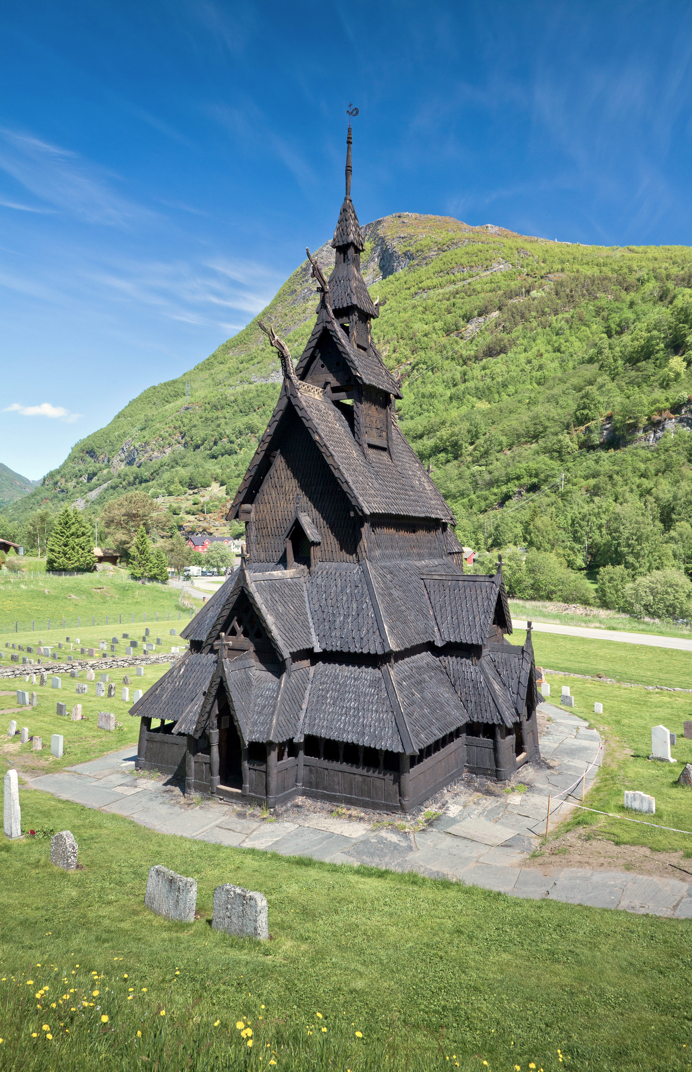 Borgund Stave Church in Lærdalen in Lærdal municipality, Sogn og Fjordane, Norway in 2013 June.